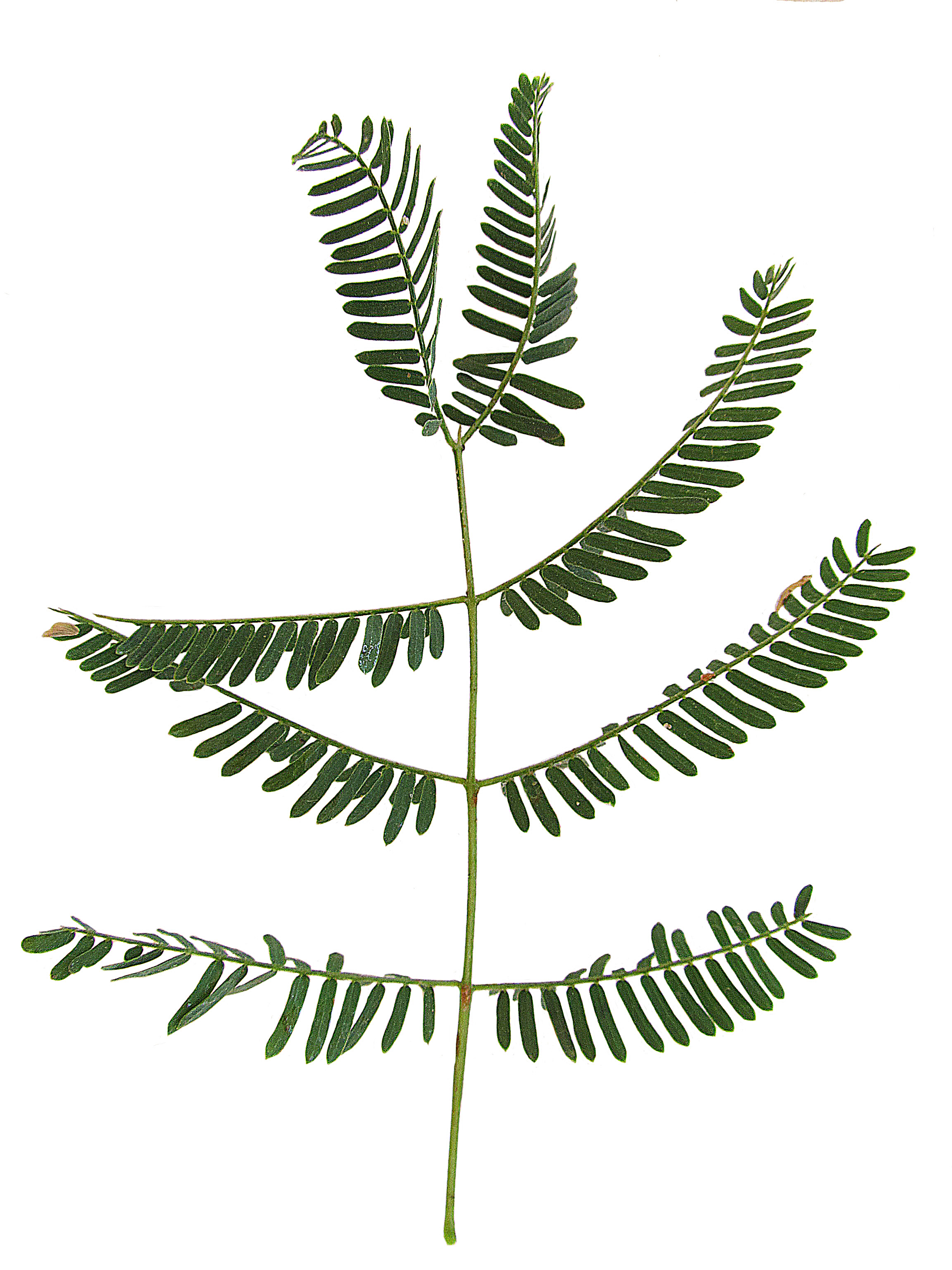 Vachellia farnesiana leaf (Sharm el-Sheikh)